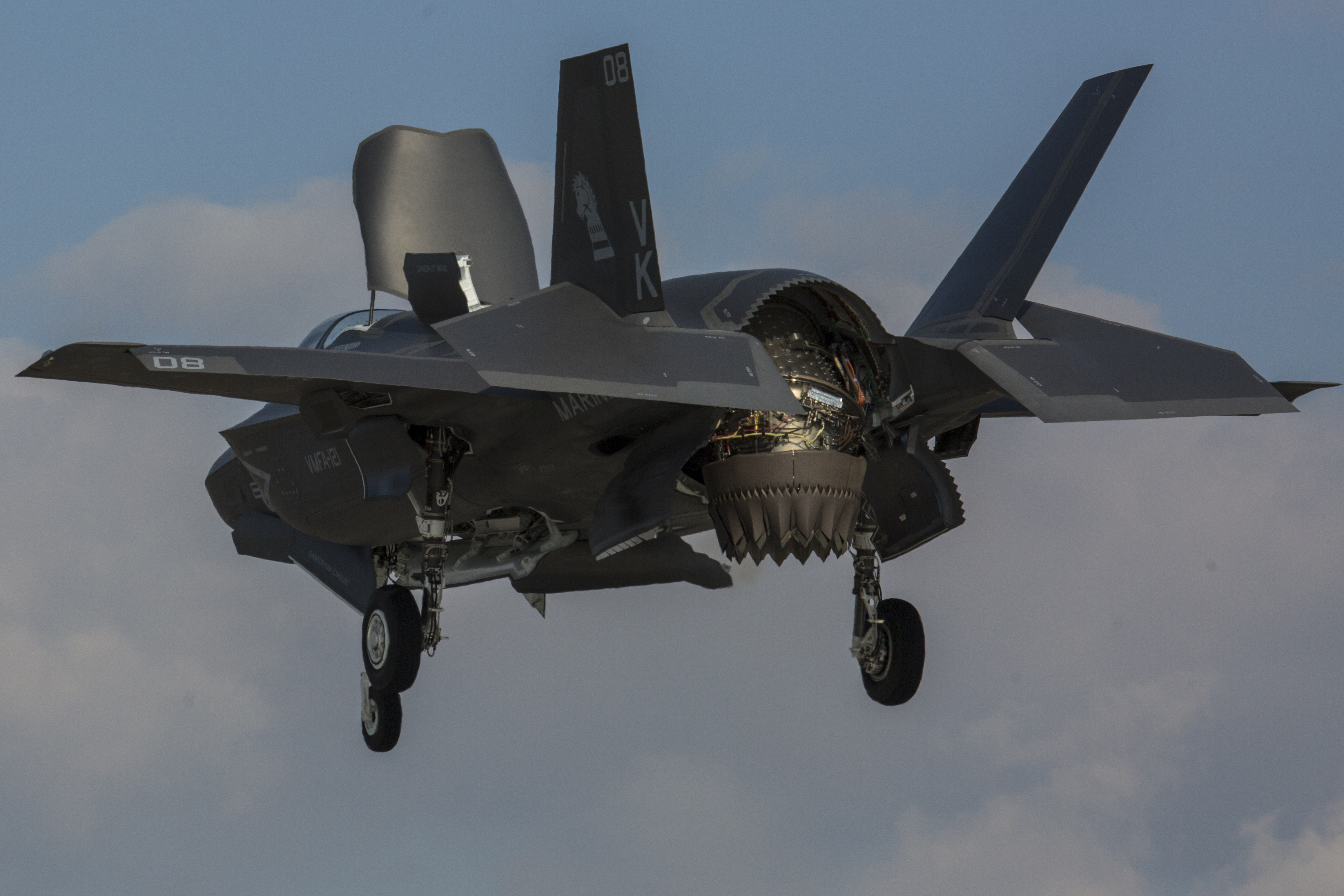 A U.S. Marine Corps F-35B Lightning II with Marine Fighter Attack Squadron (VMFA) 121, conducts a vertical landing at Marine Corps Air Station Iwakuni, Japan, Feb. 2, 2017. VMFA-121 is permanently stationed at MCAS Iwakuni and belongs to Marine Aircraft Group 12, 1st Marine Aircraft Wing, III Marine Expeditionary Force. The F-35B Lightning II is a fifth-generation fighter, which is the world’s first operational supersonic short takeoff and vertical landing aircraft. The F-35B brings strategic agility, operational flexibility and tactical supremacy to III MEF with a mission radius greater than that of the F/A-18 Hornet and AV-8B Harrier II in support of the U.S. – Japan alliance. (U.S. Marine Corps photo by Cpl. Aaron Henson) Unit: Marine Corps Air Station Iwakuni